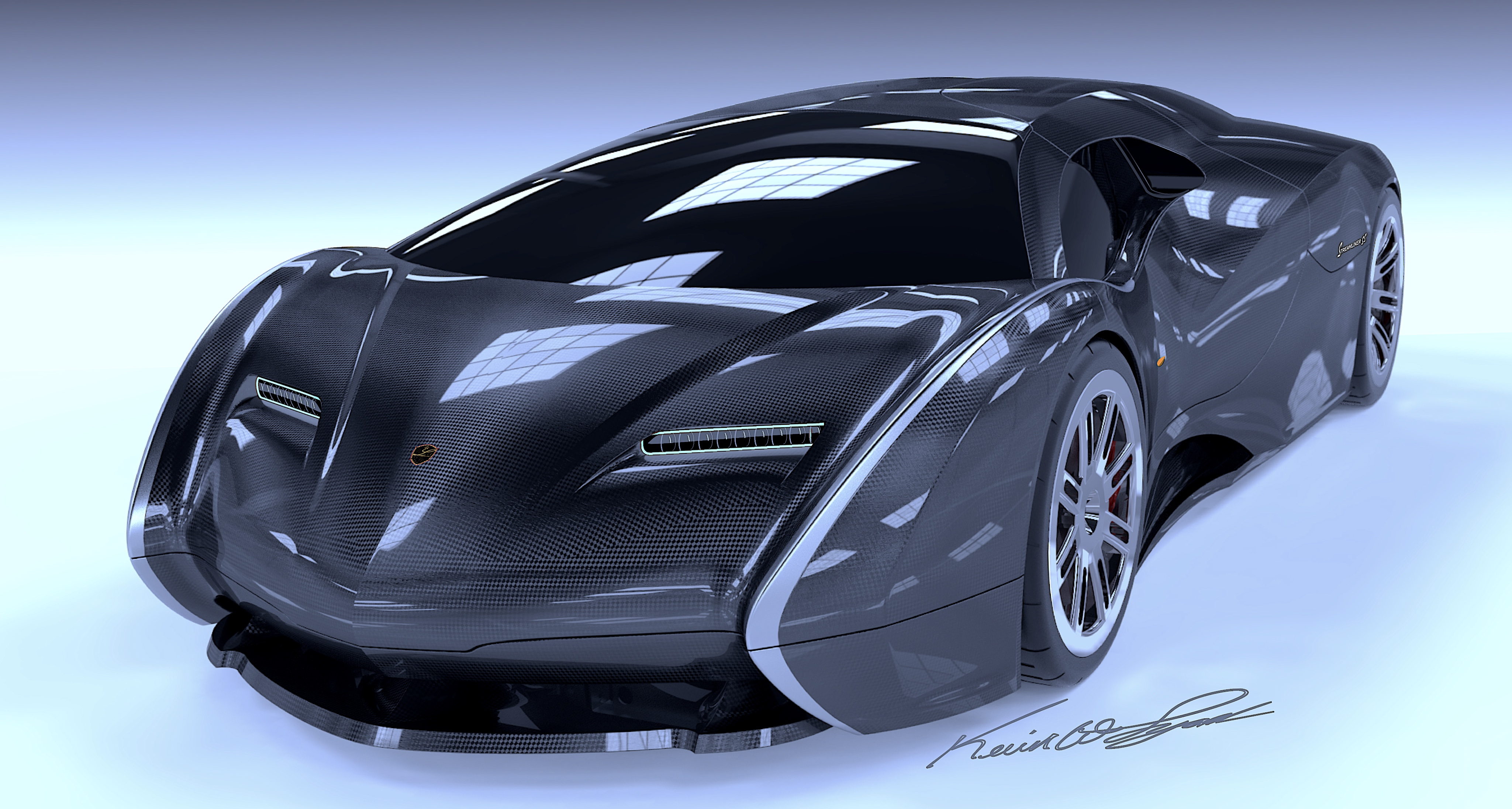 Prototype, Studio glamour photo